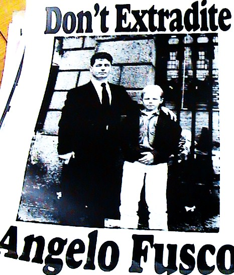 Don't extradite Angelo Fusco